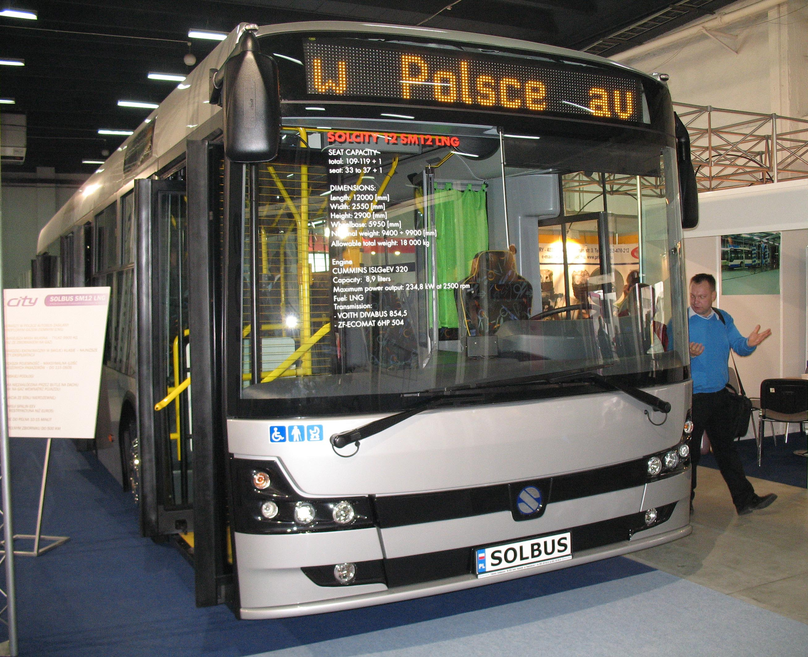 Solbus Solcity 12 LNG bus in Kielce, Poland. Built 2008. Transexpo 2008.